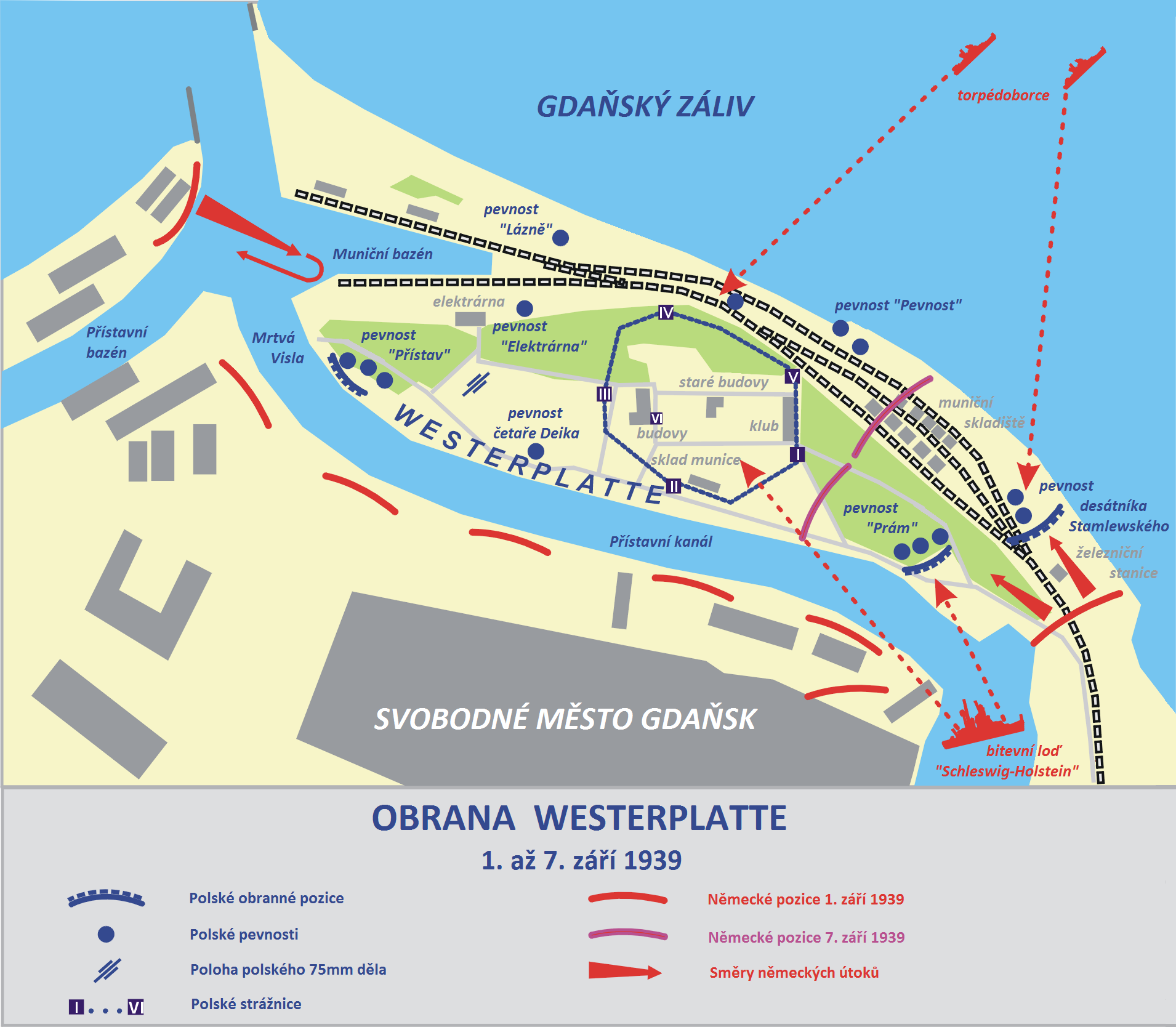 Defense of Westerplatte 1939-09-1—7